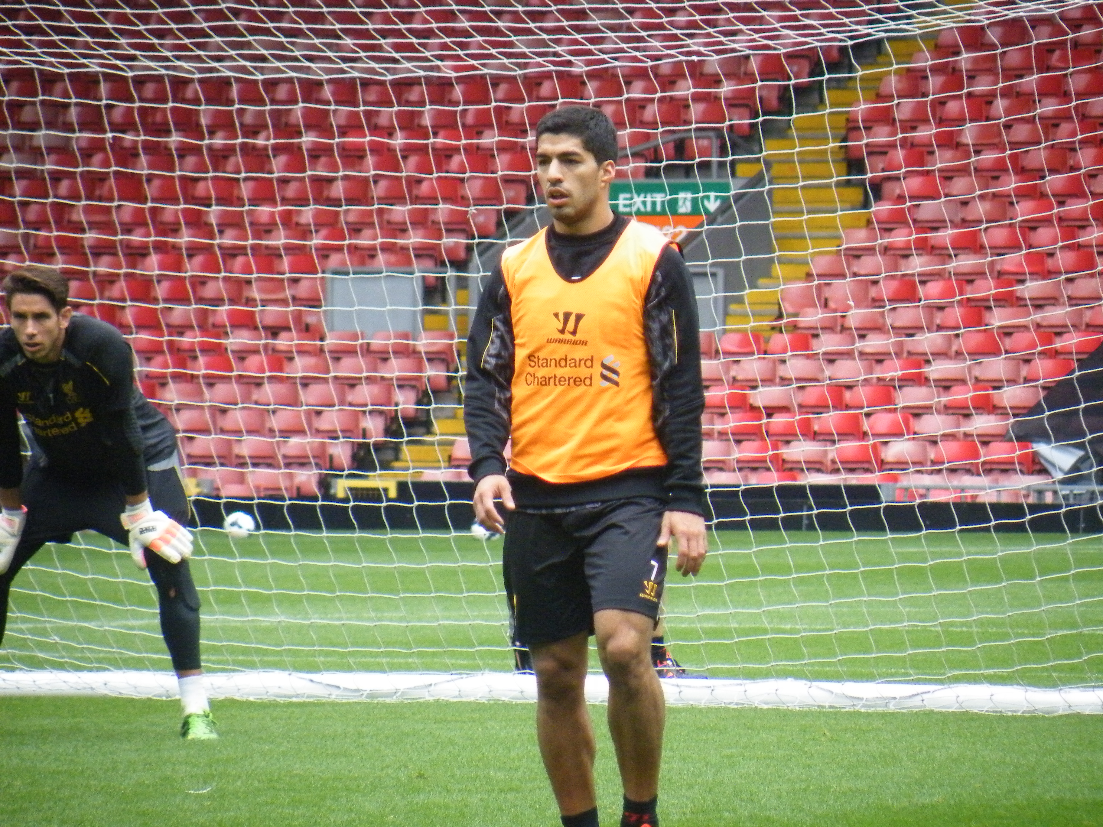 Luis Suarez during open training session at Anfield in August 2013.